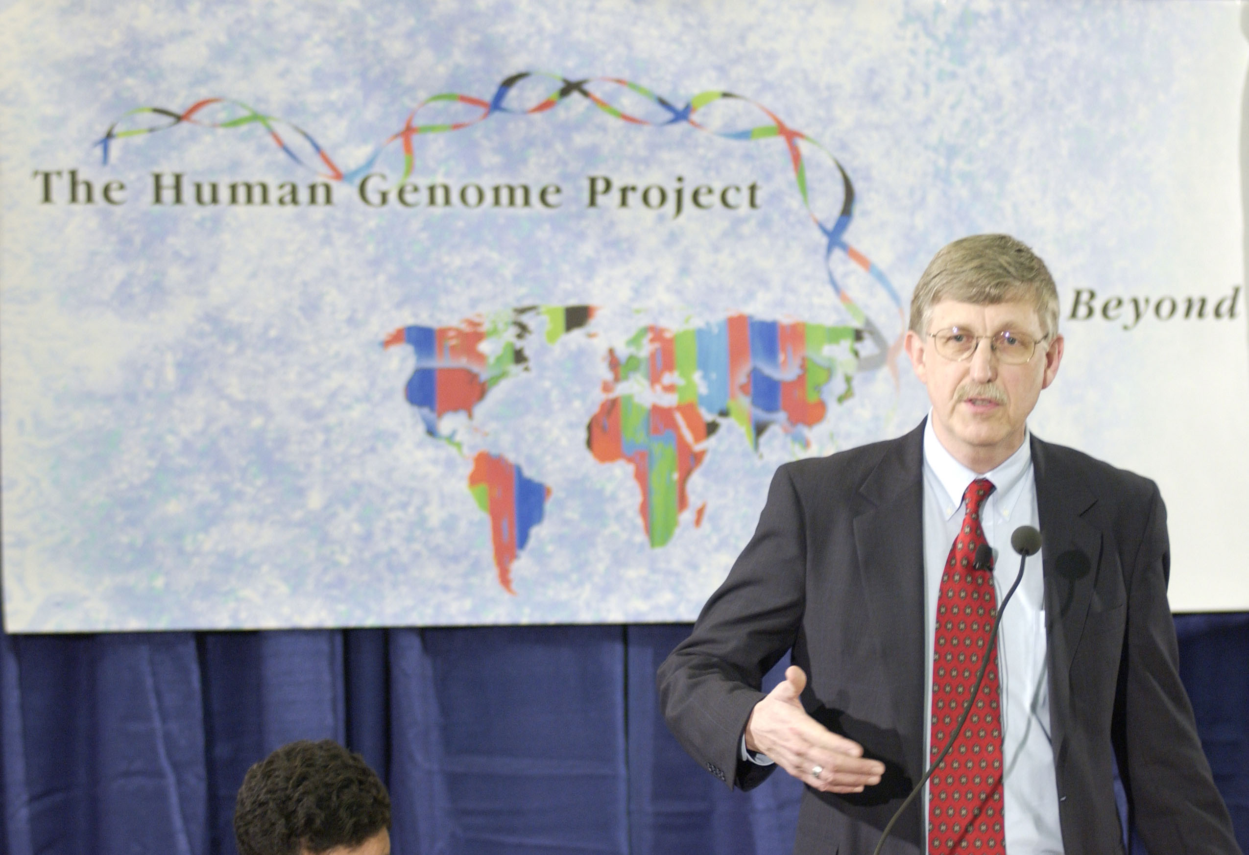 Francis Collins, M.D., Ph.D., announces the successful completion of the Human Genome Project. Credit: Ernie Branson, NIH.